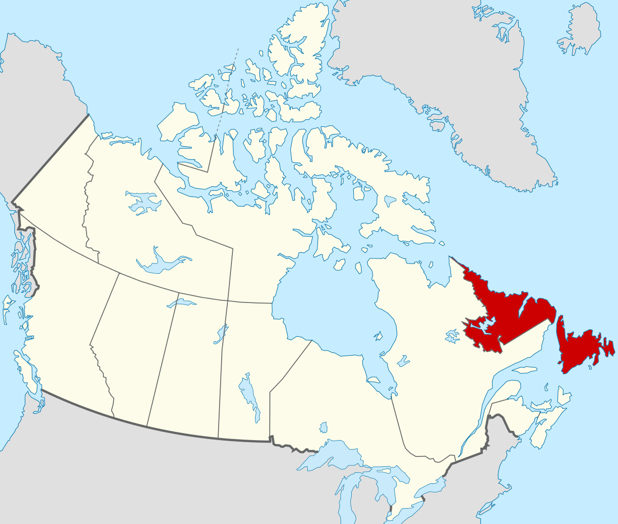 Province of Newfoundland and Labrador in Canada